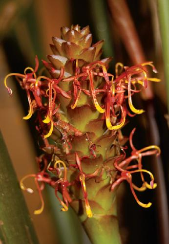 Larsenianthus wardianus